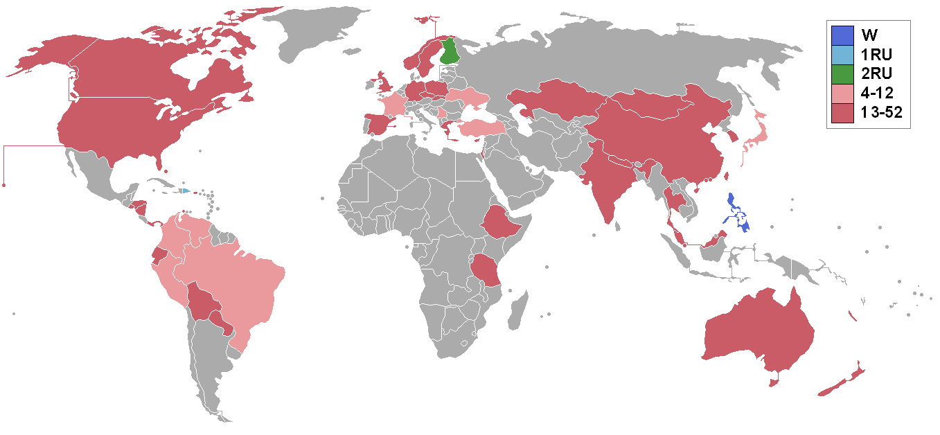 Miss International 2005 Map